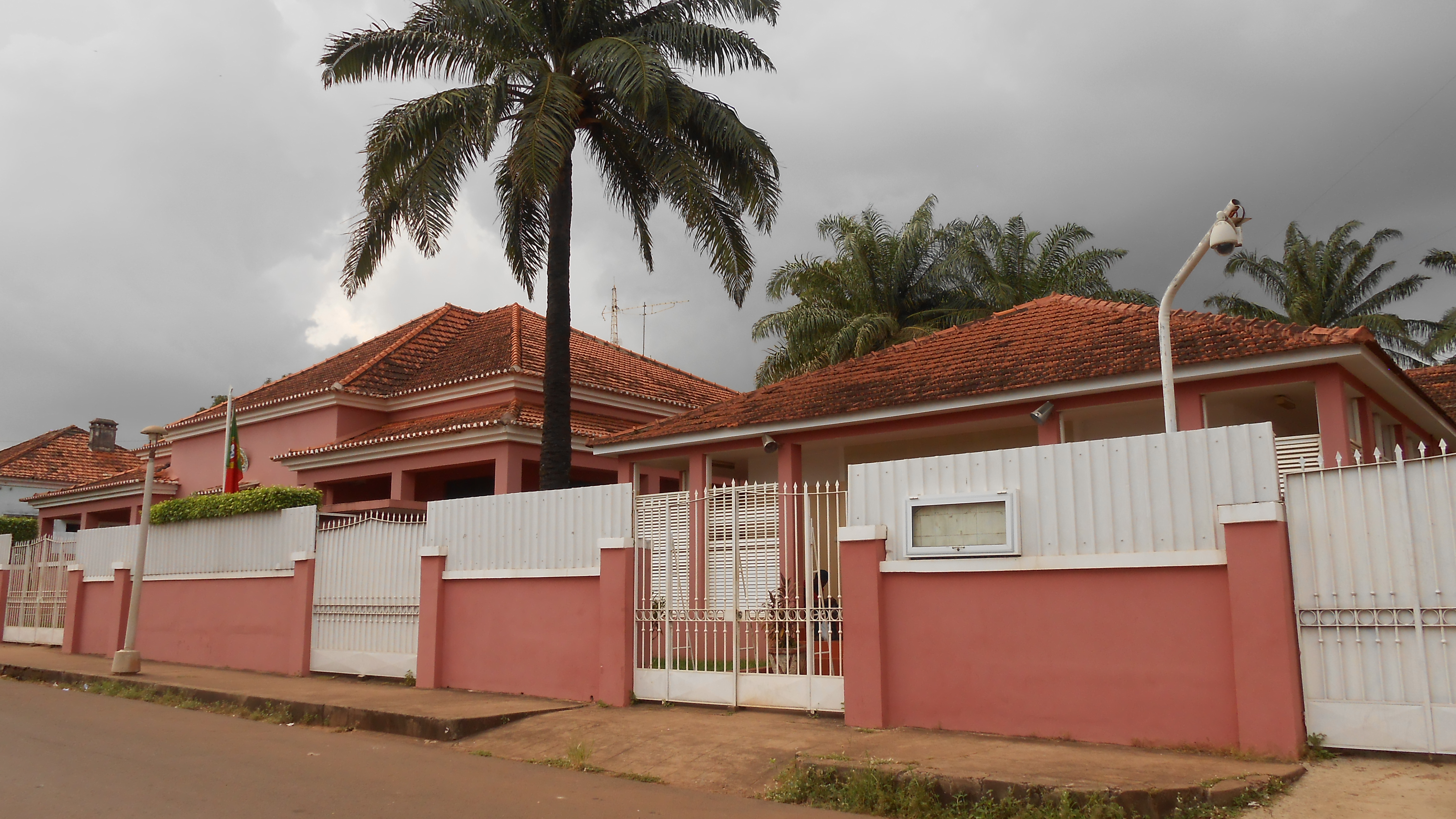 The portuguese embassy in Bissau, capital of Guinea-Bissau.